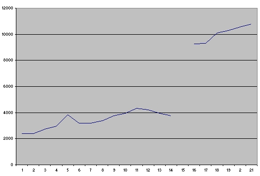 Graph showing population growth of Corsham, Wiltshire. Census figures from